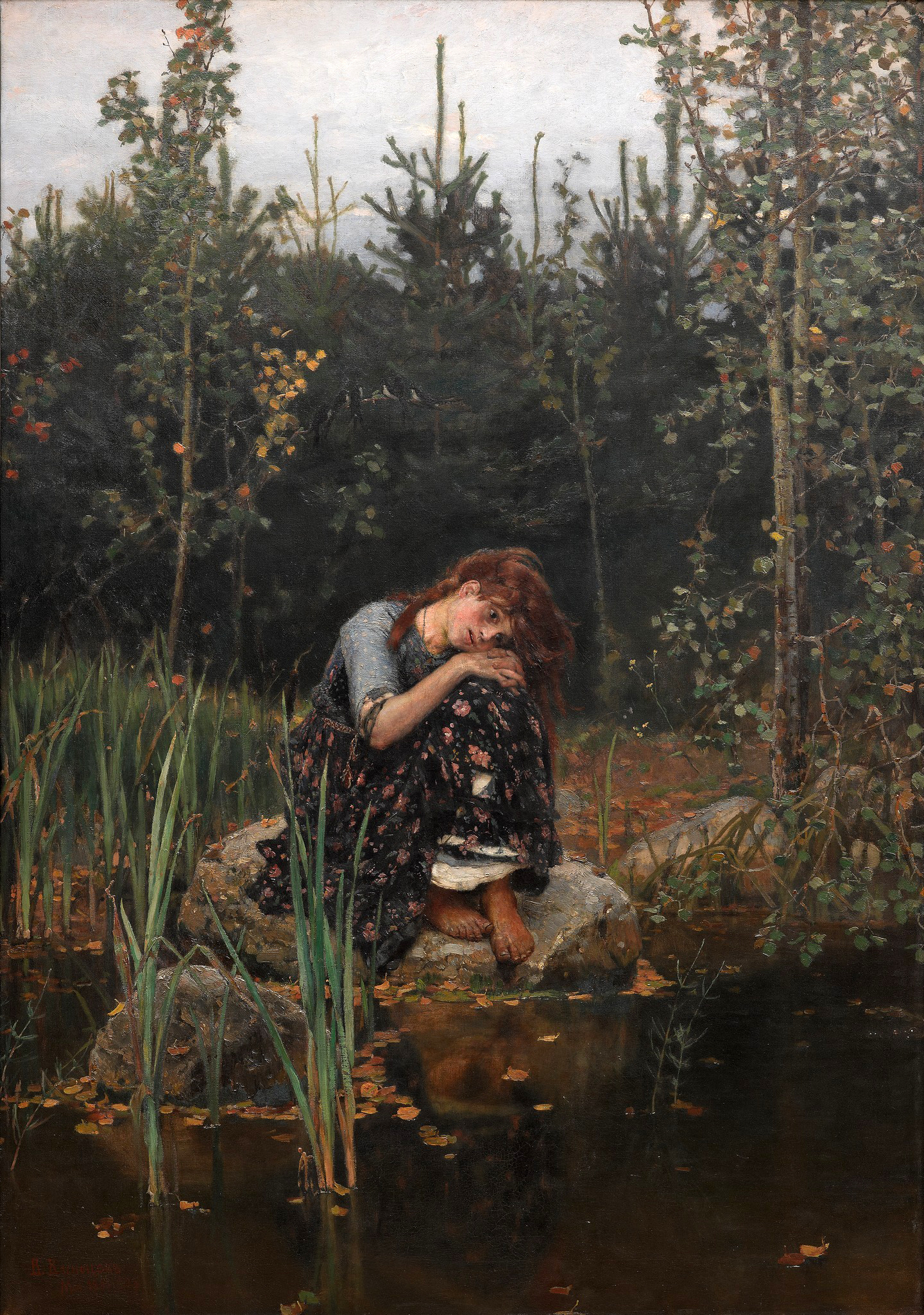 Not targeting a specific theme or event, Vasnetsov managed to portray in his picture the soul of Russian fairy tale, akin to quiet Mid-Russian nature. The image of Alyonushka, painted with a peasant girl as the model, conveys the suffering of a meek, lonely orphan, abandoned by everybody, who is present in many a tale. She spends an eternity sitting on a white stone, as if turned into stone with suffering, her eyes a mirror of unspoken despair. The girl's eyes pull you in like a whirlpool. The deep dark water, with a shimmering transparent reflection, is pulling at Alyonushka like a magnet. The girl's figure seems to have been put together using naturally occurring shapes, dying evening colours and foliage patterns, to project a distilled inward-turned sadness of autumn nature, which takes care to conceal and safeguard the heroine. Nature consoles her like a mother consoles her baby. Landscape motifs are suggested by poetical folklore images, for example the swallows that are gathered on a twig above Alyonushka's head as good message bringers, while the fluttering aspens are a symbol of bad luck.